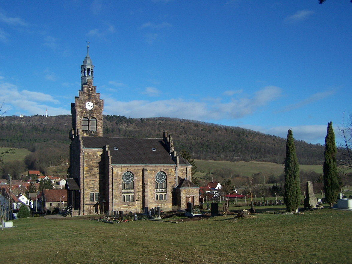 protestant Luther-church at Kälberfeld, Thuringia, Germany, built in 1905